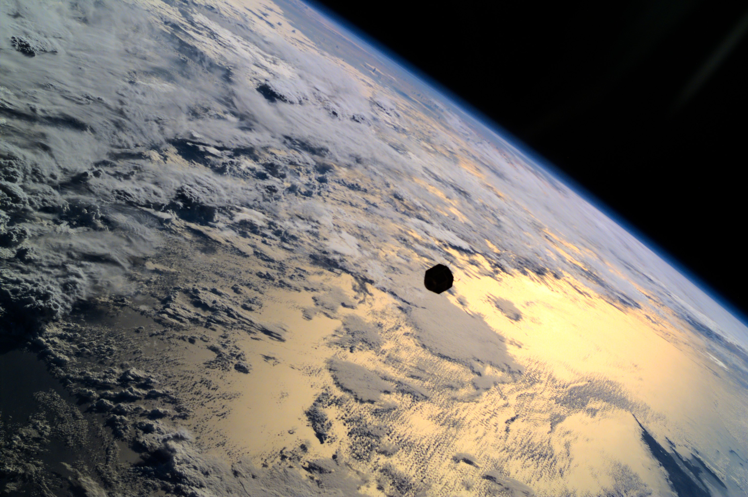 View of the deployment of the Petite Amateur Naval Satellite (PANSAT) developed by the Naval Postgraduate School (NPS) from the STS-95 orbiter Discovery's payload bay on Flight Day 2 (5039-40). Various views of the PANSAT in orbit around the Earth (5041-3). Image 5040 was selected by the crew for use in their postflight presentation.